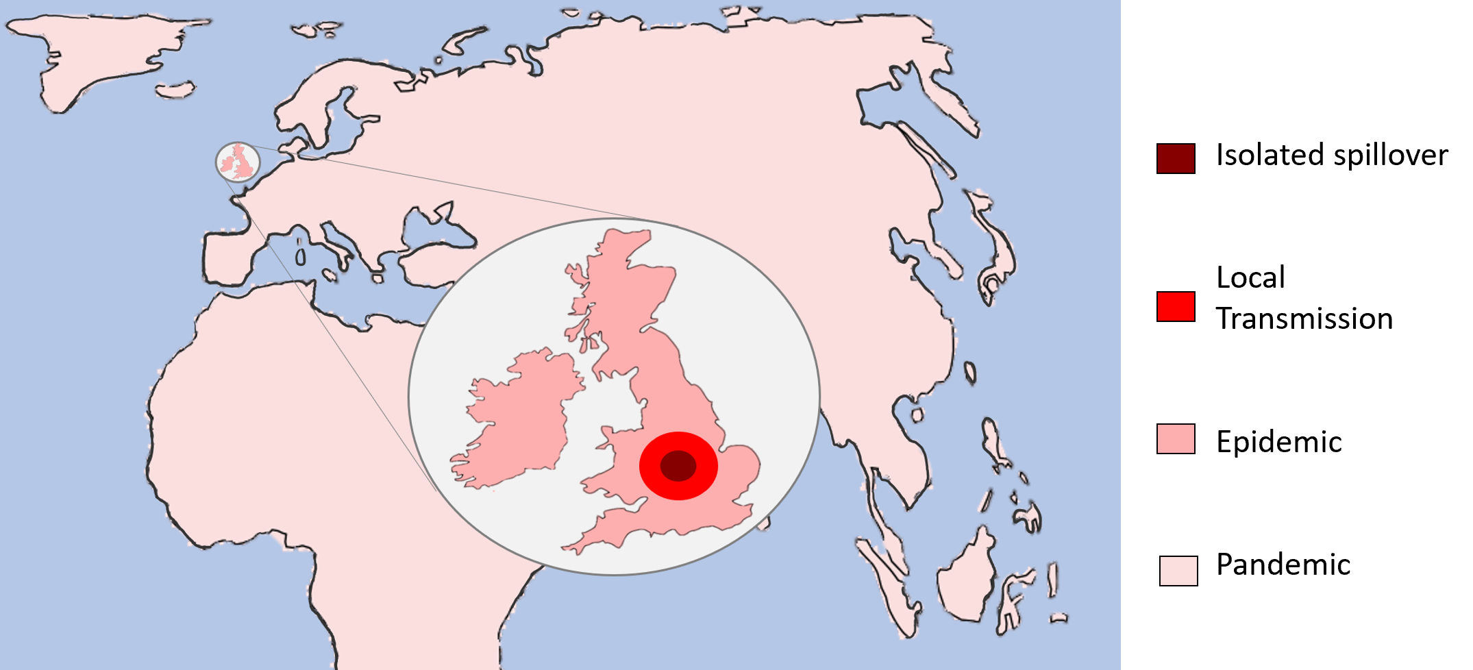 This image shows the potential growth in spread and reach of a pathogen during a host switch. This includes the site of the single isolated infection, the local spillover, sustained transmission in and epidemic and ending with possible pandemic potential.